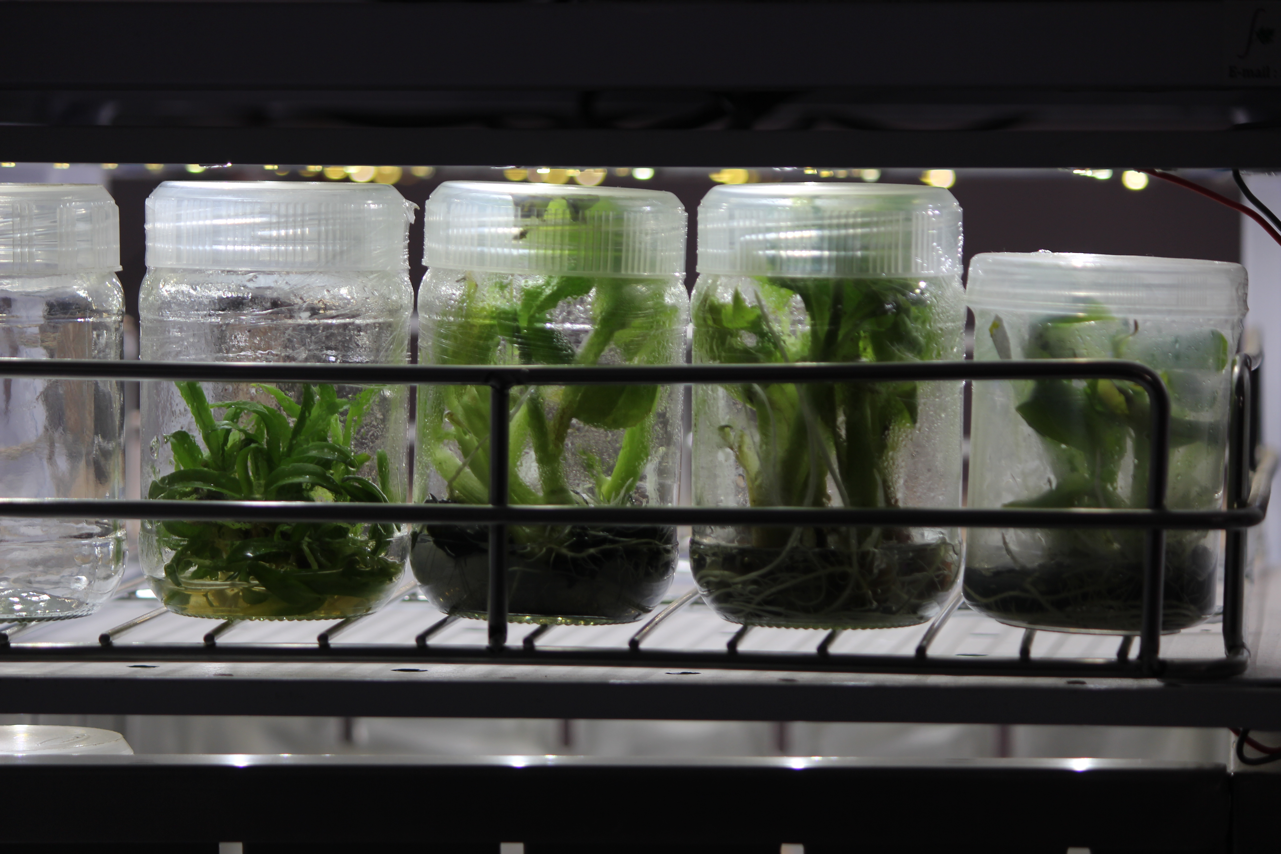 Banana seedlings by tissue culture-from the National Banana Festival at Kalliyoor, Thiruvananthapuram, Kerala during February, 2018